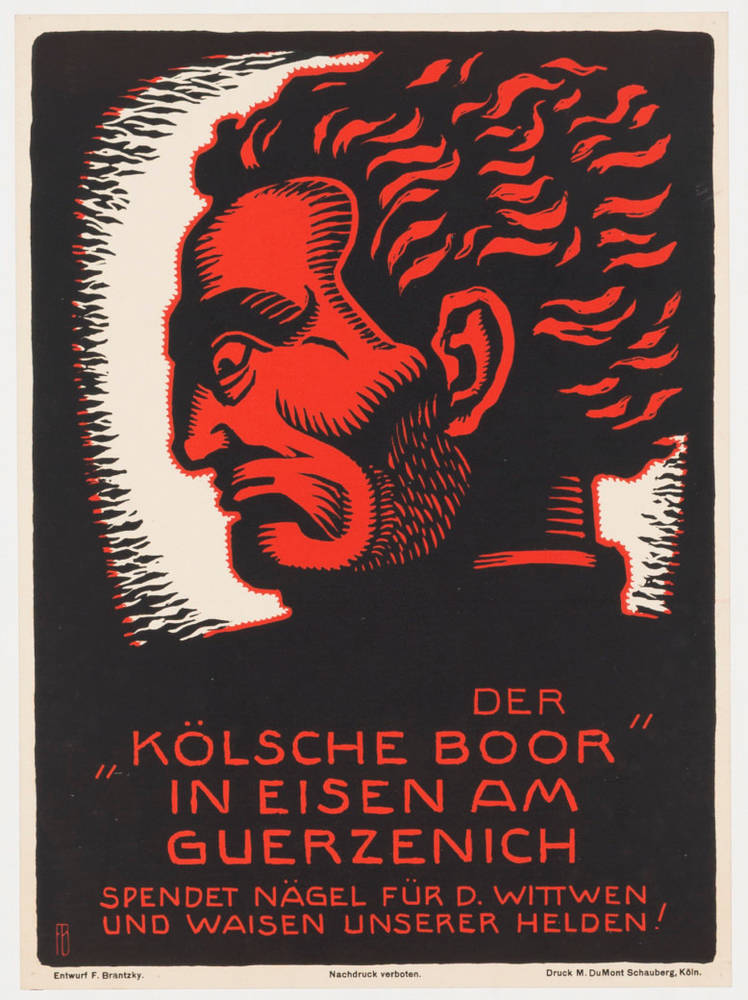 Der „Kölsche Boor“ in Eisen am Gürzenich. Spendet Nägel für d. Wittwen und Waisen unserer Helden, poster by Franz Brantzky, Cologne, printed at M. DuMont Schauberg, Cologne, 49,4 by 36,2 cm.